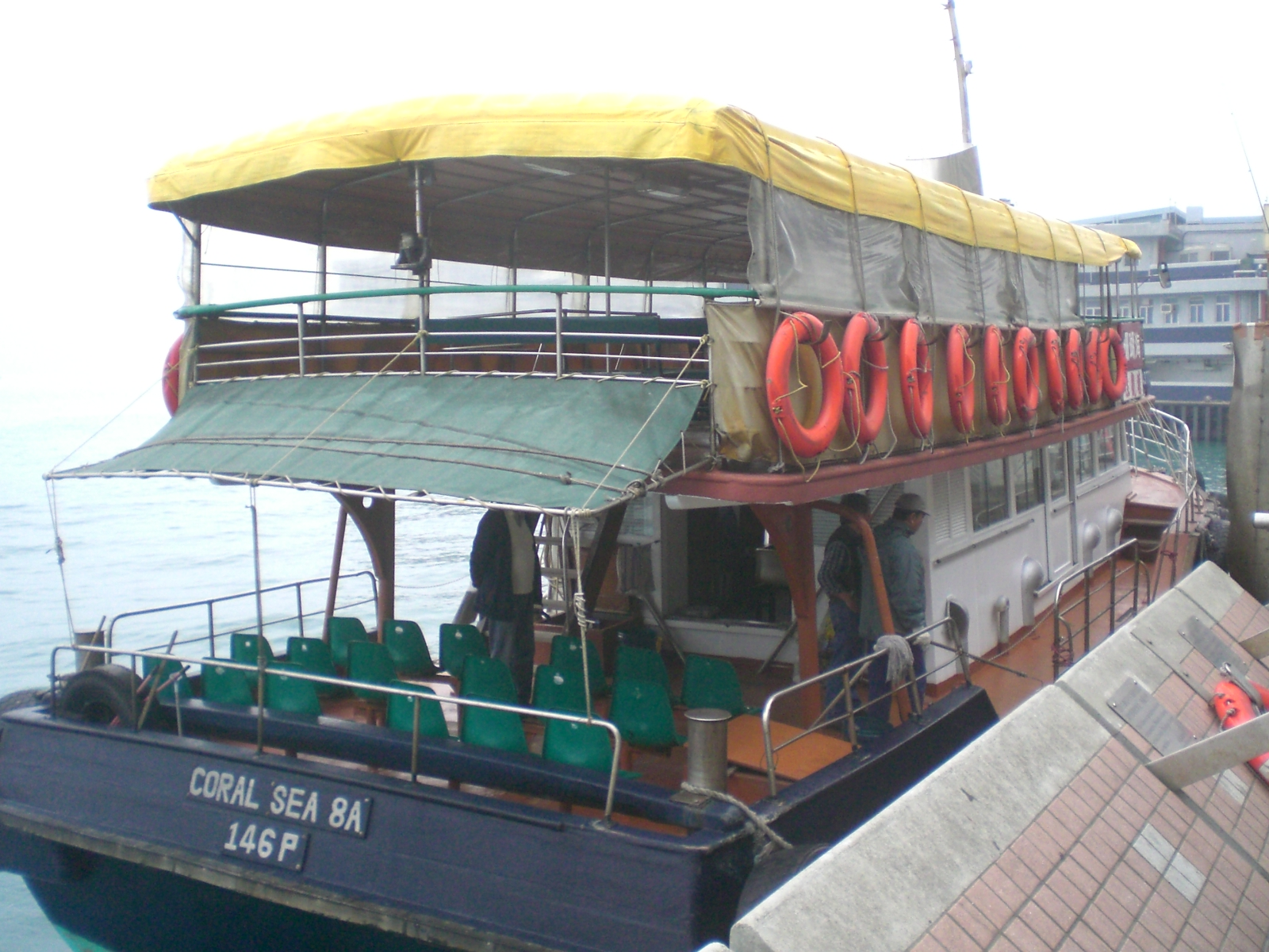 香港東區 西灣河碼頭